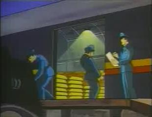 Screenshot of the animated short Billion Dollar Limited.